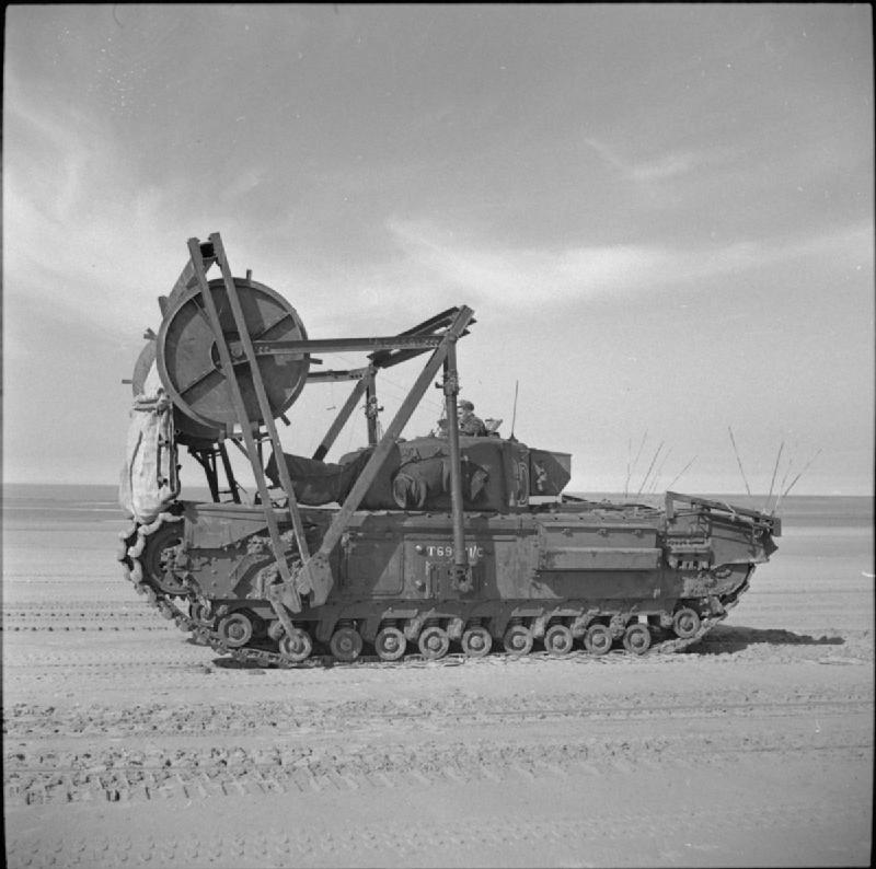 The British Army in the United Kingdom 1939-45 Churchill AVRE carpet-layer with bobbin, 79th Armoured Division equipment trials, 26 April 1944.